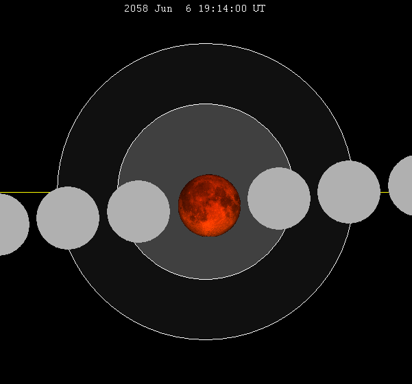 June 2058 lunar eclipse chart of moon's total lunar eclipse path through the earth's shadow. thumb